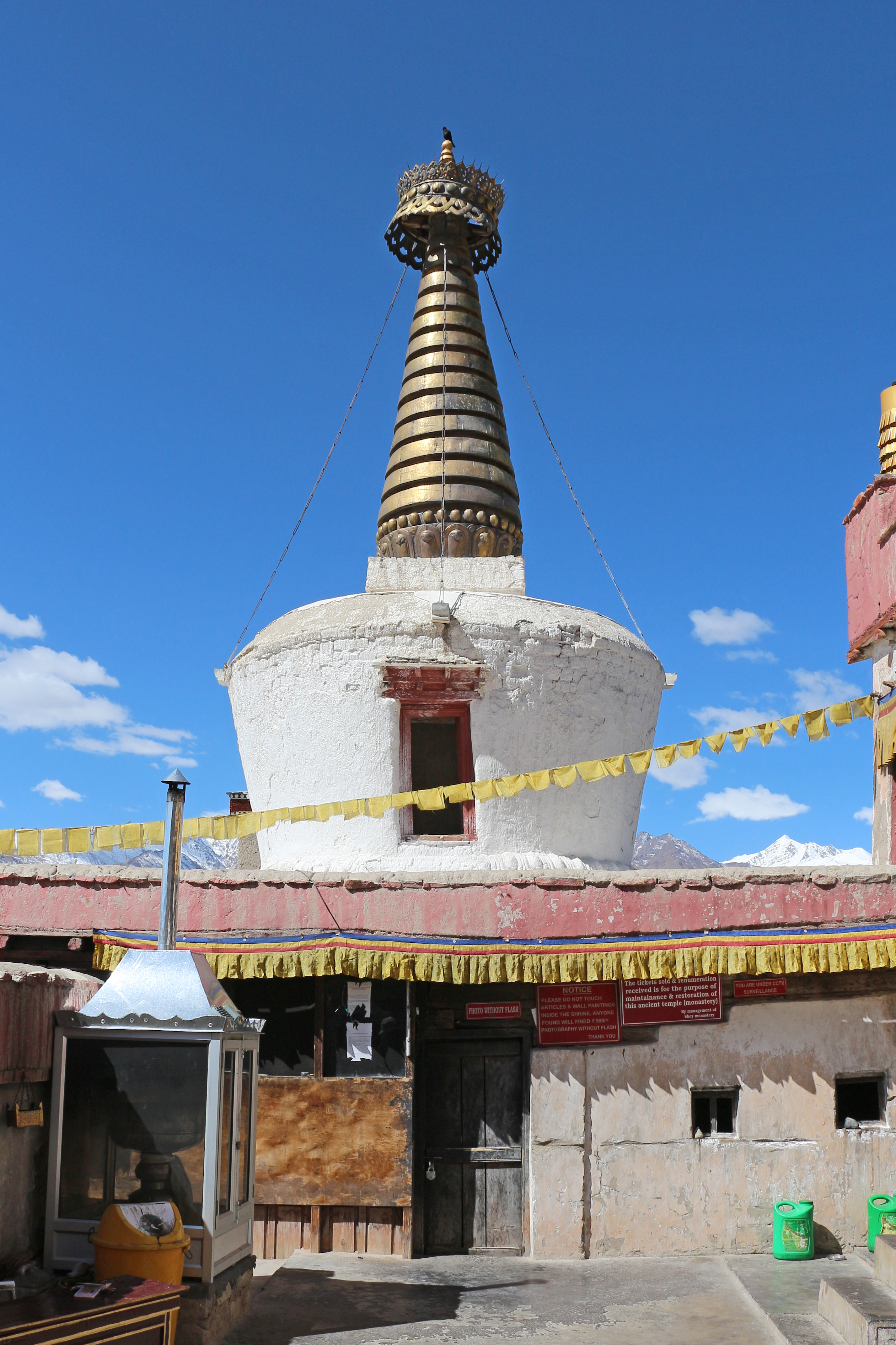 Main chorten of Shey Palace, Ladakh, India